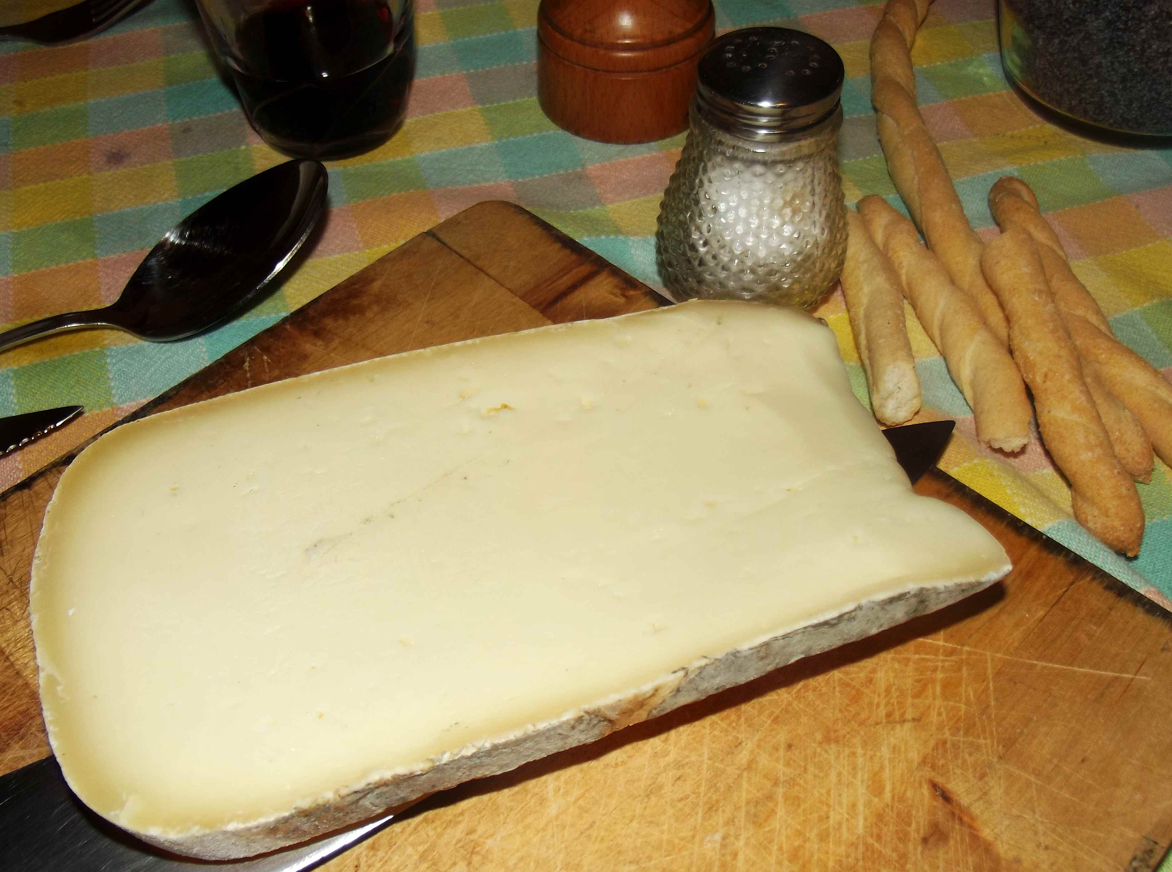 A Raschera cheese slice (Italian cheese fron Cuneo province)